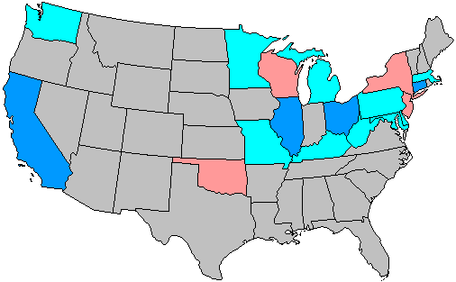 Summary of party change of U.S. house seats in the 1944 House election. Stripes indicate a tie between the gains of two or more parties. Legend: 6+ Democratic seat pickup 3-5 Democratic seat pickup 1-2 Democratic seat pickup 1-2 Republican seat pickup 3-5 Republican seat pickup 6+ Republican seat pickup Note: years ending in 2 may have inconsistent results due to redistricting.